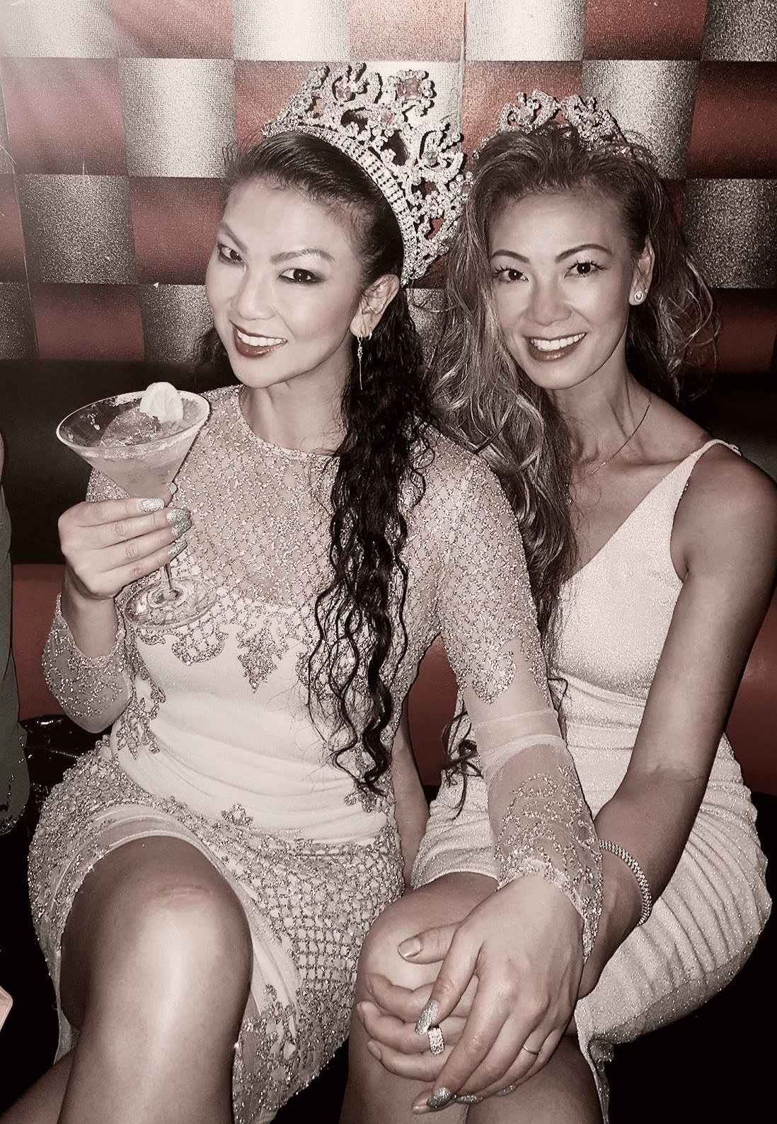 Lucia Hou celebrating her birthday with her sister Kim Michael